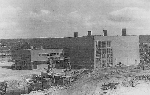 Makiminato Thermal Power Station in 1950s